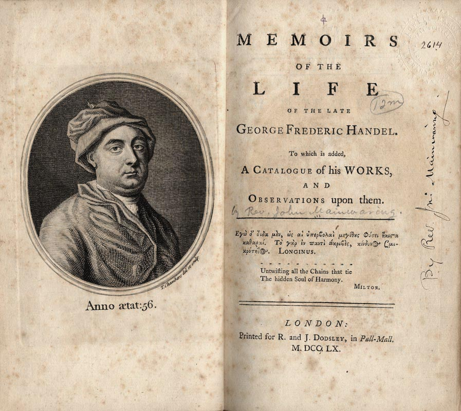 Title page of "Memoirs of the Life of the Late George Frederic Handel", 1760, by John Mainwaring, with portait of Handel.